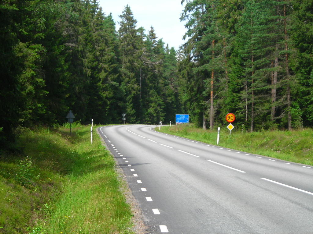 Swedish Road 166 near Bäckefors